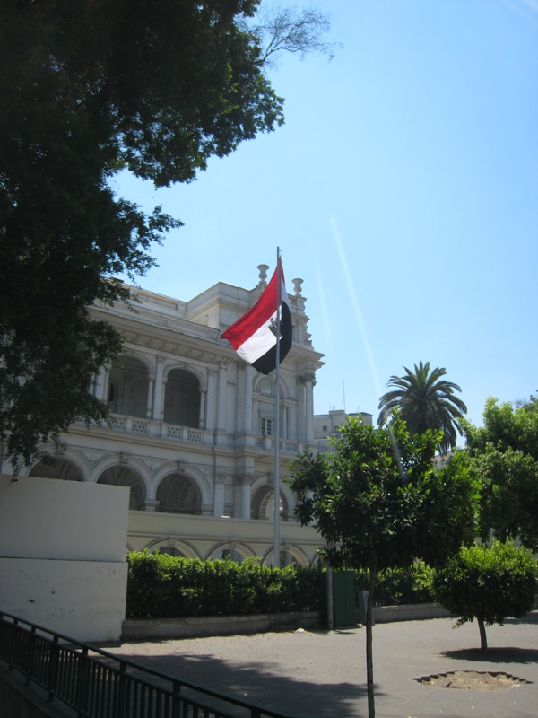 Egyptian Flag. Police were freaking out when they saw me take this. Not sure what the building is.